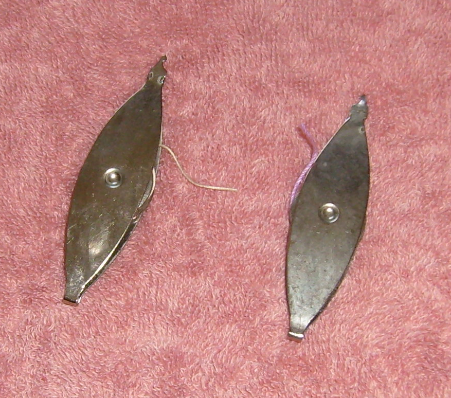 Vintage tatting shuttles in steel, early twentieth century. Tatting shuttles are normally operated in pairs to produce tatting lace. A small spool inside the shuttle stores thread while the end hook helps guide the crafter during lace construction.